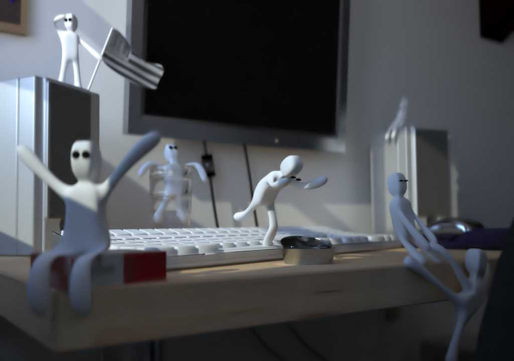 Modeled with Blender, rendered with Indigo.